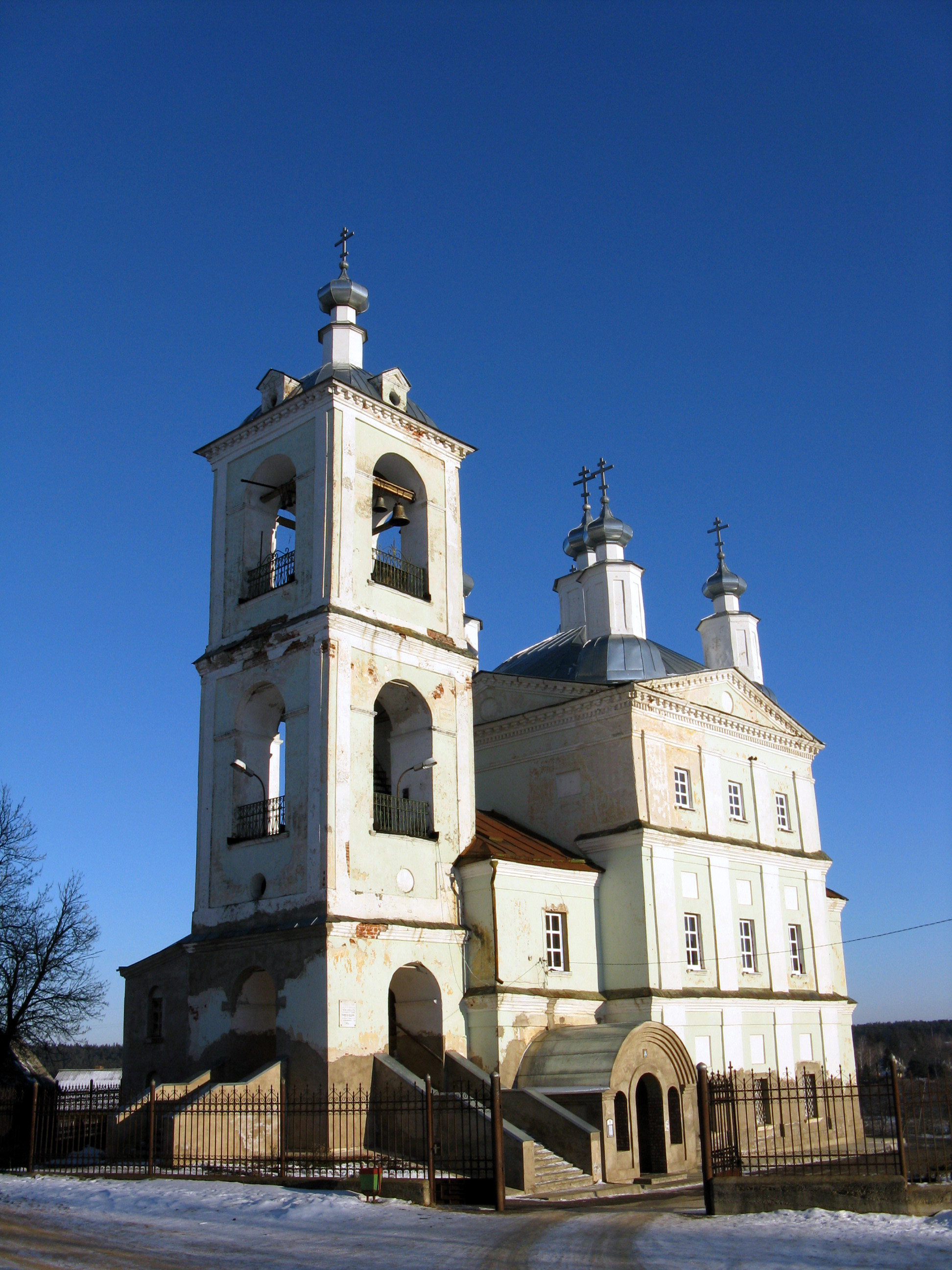 Elijah's Orthodox church in Vereya, Moscow Oblast